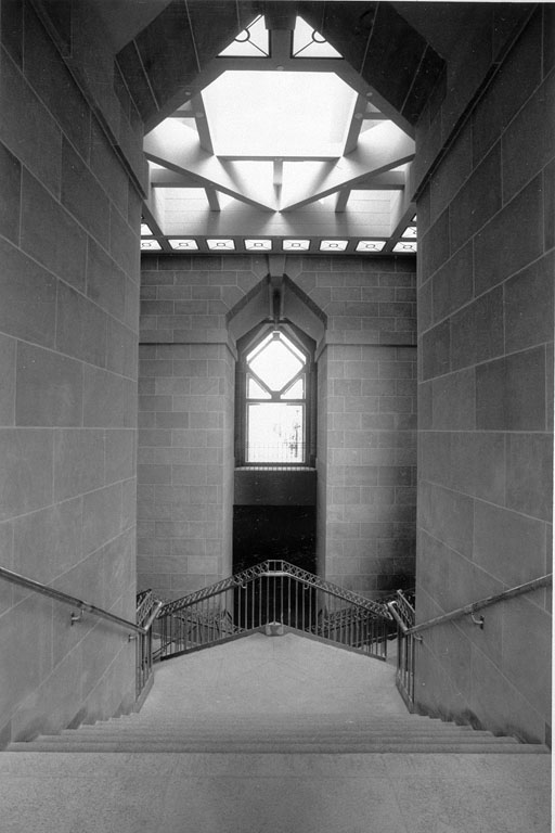 The view down the grand staircase of the Arthur M. Sackler Gallery. Note the repetition of the diamond motif. The museum houses Asian art and opened as part of the Quadrangle complex on September 28, 1987.